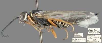 Female adult Syntexis libocedrii, oregon State USA